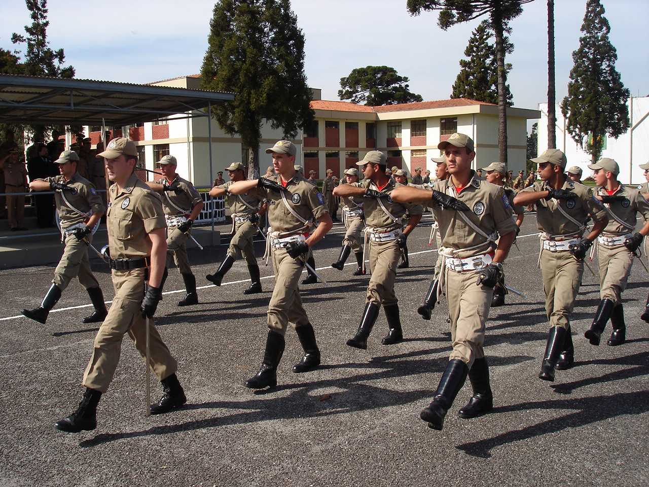 Desfile da Escola de Formação de Oficias - CFO BM